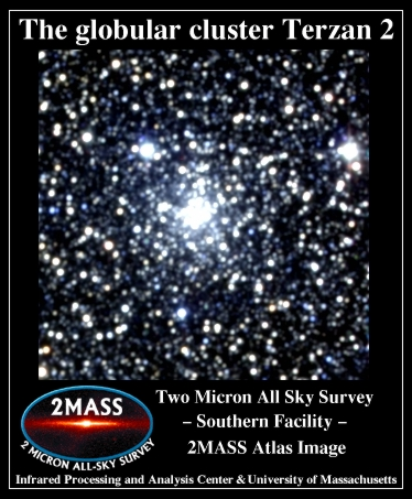 Globular cluster Terzan 2